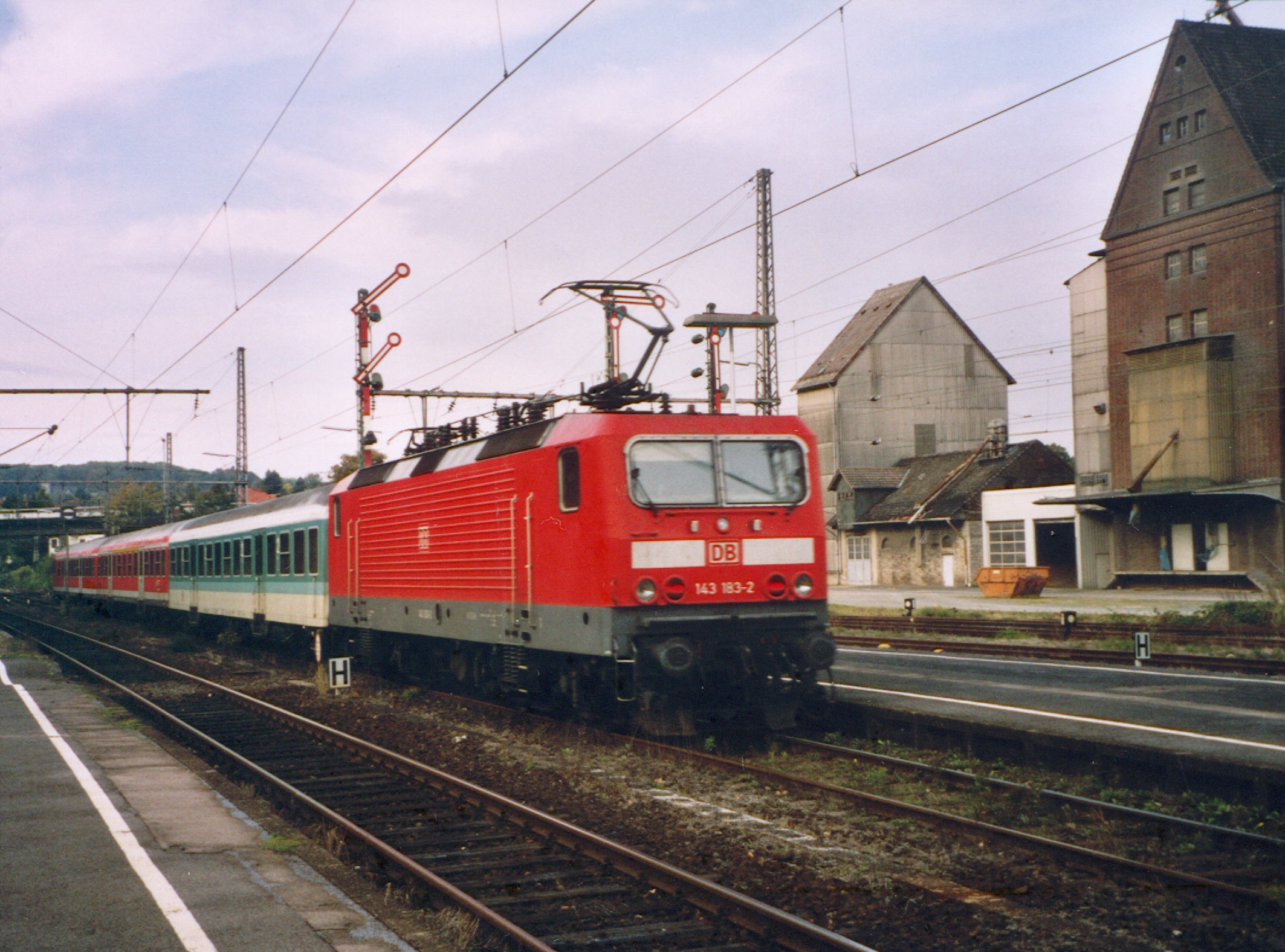 Deutsche Bahn electric locomotive no. 143 183-2 from the DBAG Class 143 (former East German DR Class 243), leaving the railway station in Lage, North Rhine-Westphalia, Germany.